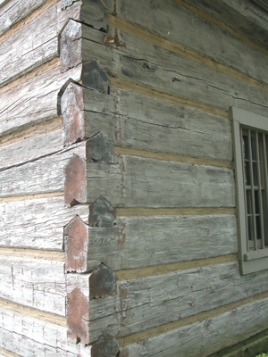 Log Cabin corner joint detail Image copyleft: Image taken by me, released under GFDL Pollinator 04:57, Aug 23, 2004 (UTC)